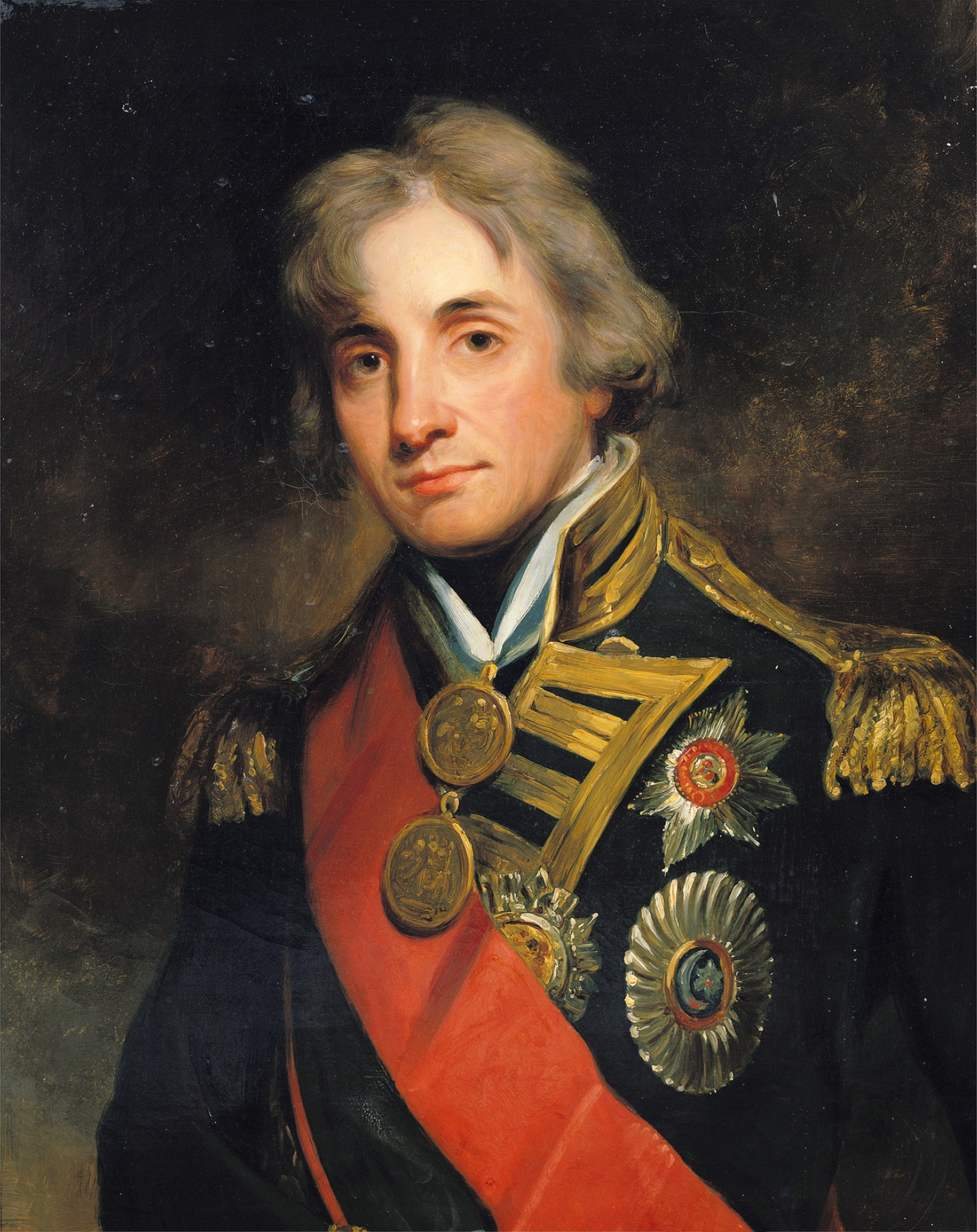 Admiral Horatio Nelson (1758-1805) Vice-Admiral of the English Fleet; British naval officer